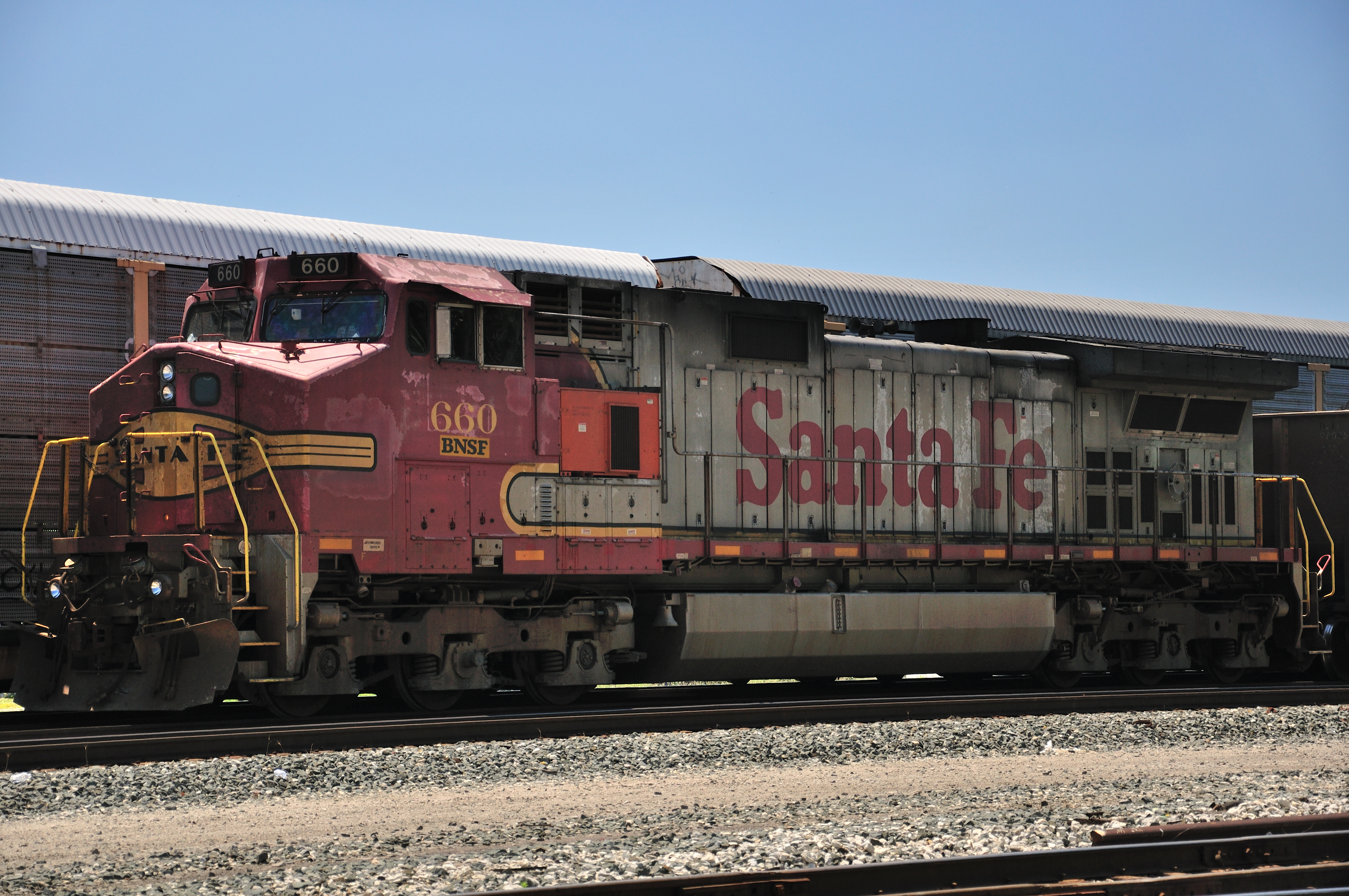 BNSF 660 (a GE C44-9W) in warbonnet paint scheme on the Indiana Harbor Beltway railroad near State Line Road in Calumet City, Illinois.